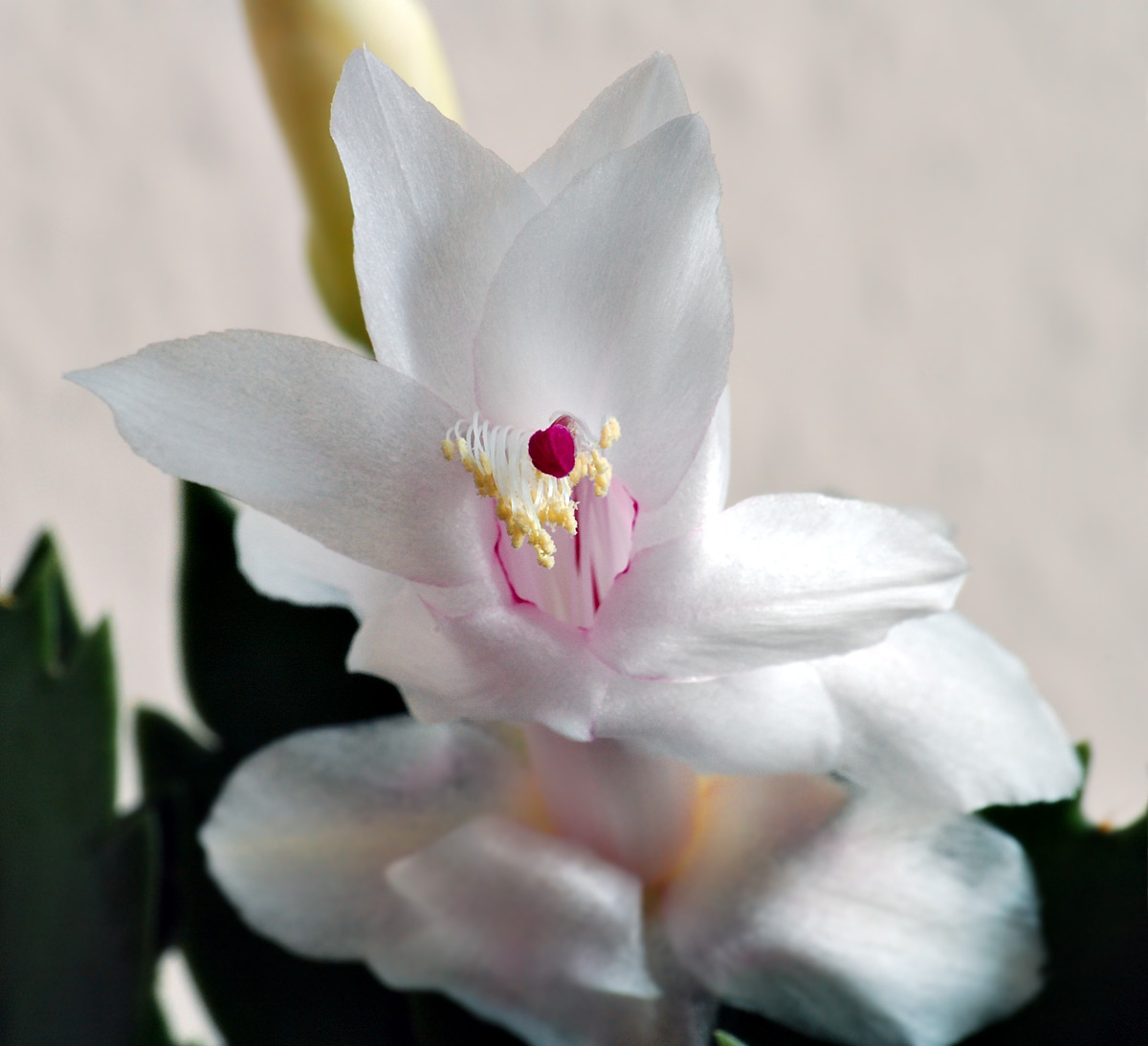 This image shows a close-up photo of a Christmas cactus.